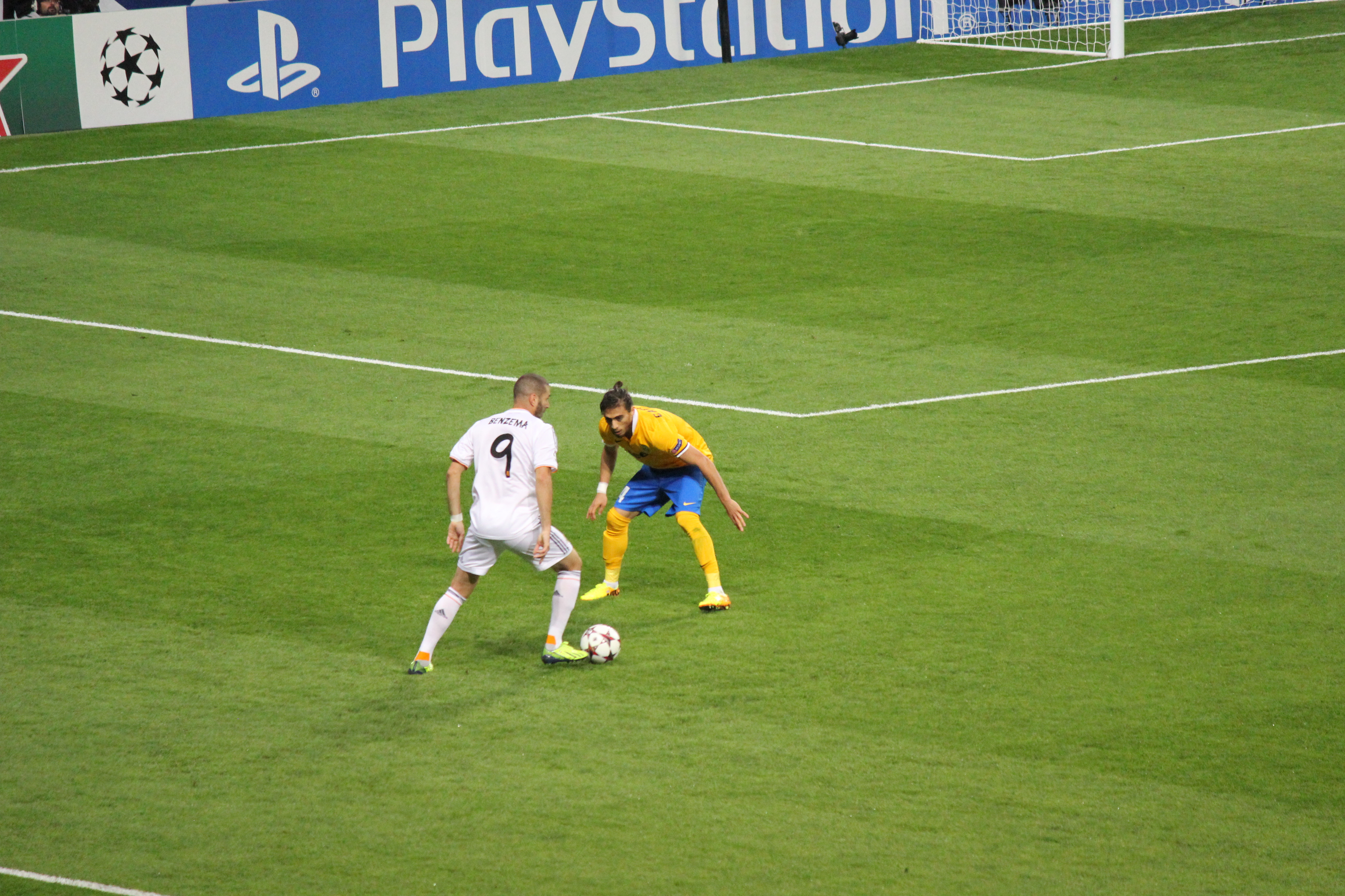 Real Madrid vs Juventus, 24 October 2013 Champions League